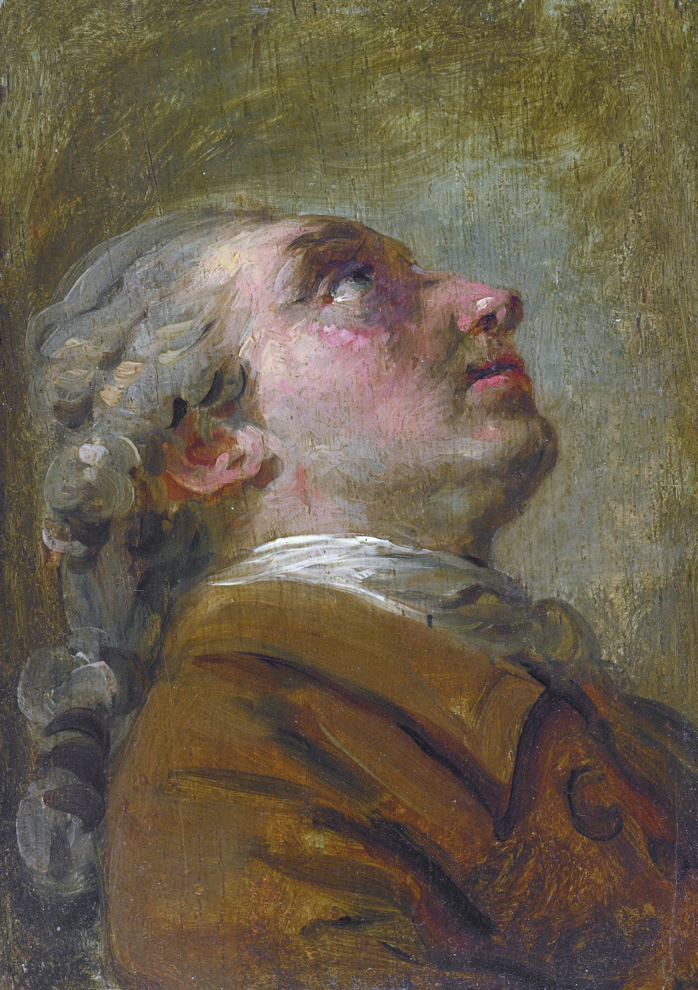 Portrait of the Artist Simon-Mathurin Lantara (1729-1778)